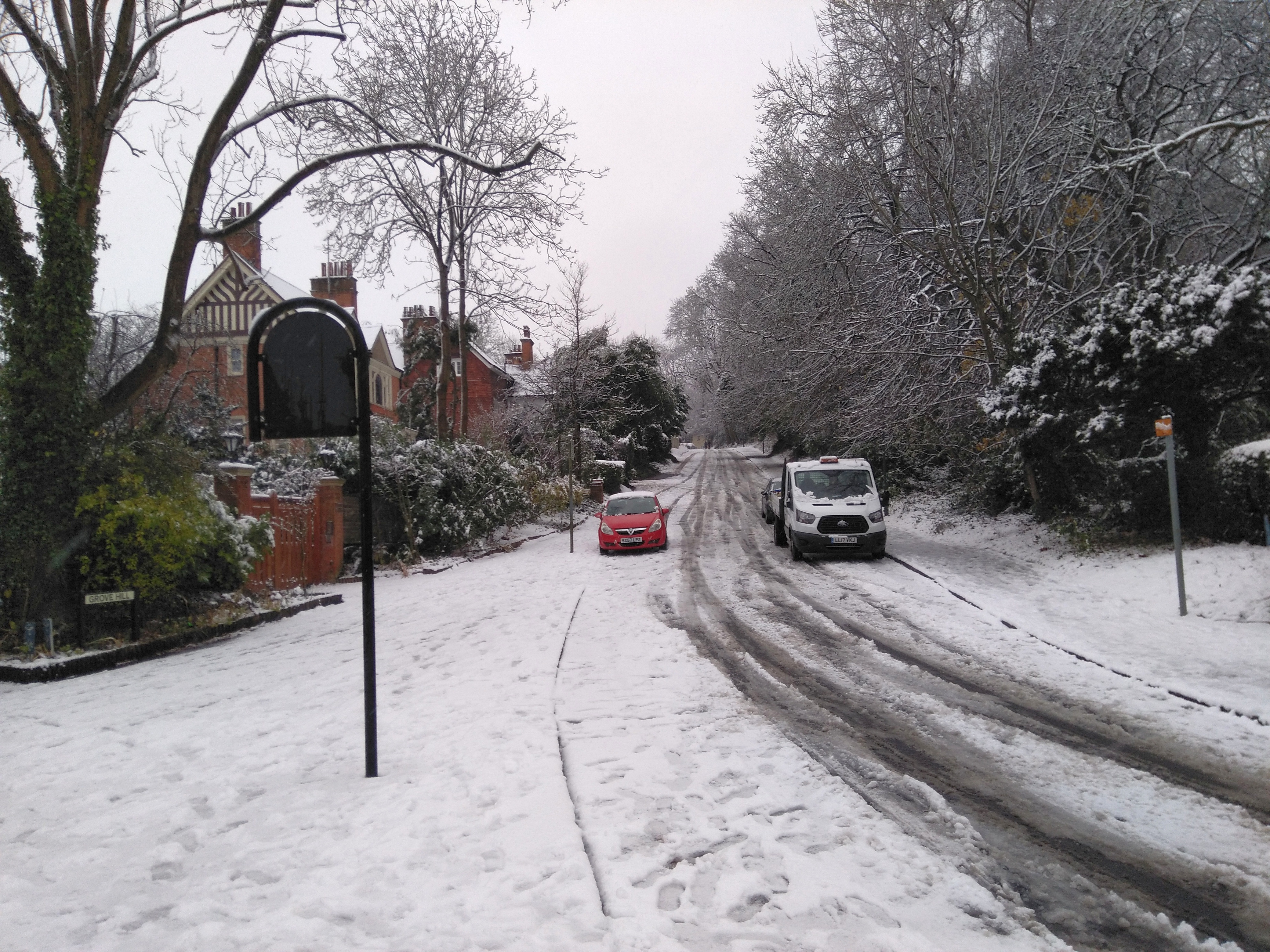 Northern end of Grove Hill, Harrow, England, looking south.